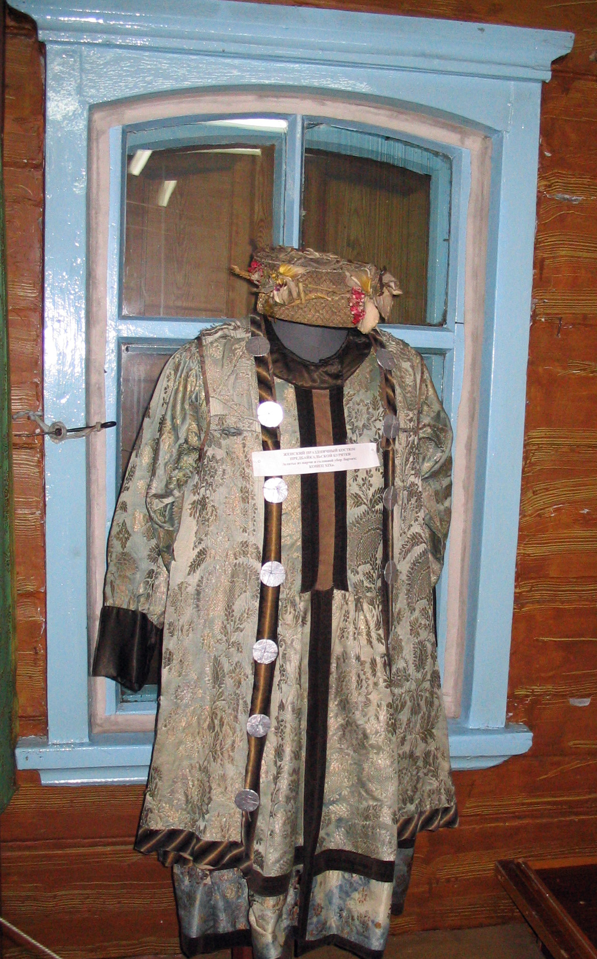 Image of a traditional Buryat dress on display at the ethnographic museum in Ulan Ude, Russia. Taken by me 7/06 and released into public domain